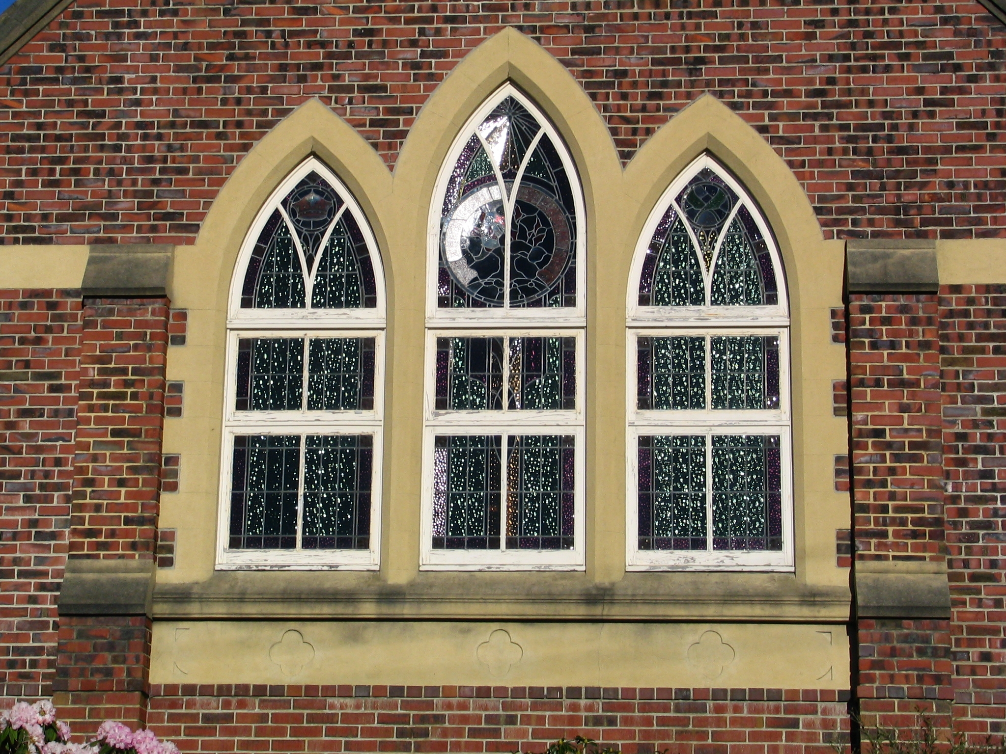 Exterior view of window of Opoho Presbyterian Church, Signal Hill Road, Dunedin, New Zealand.